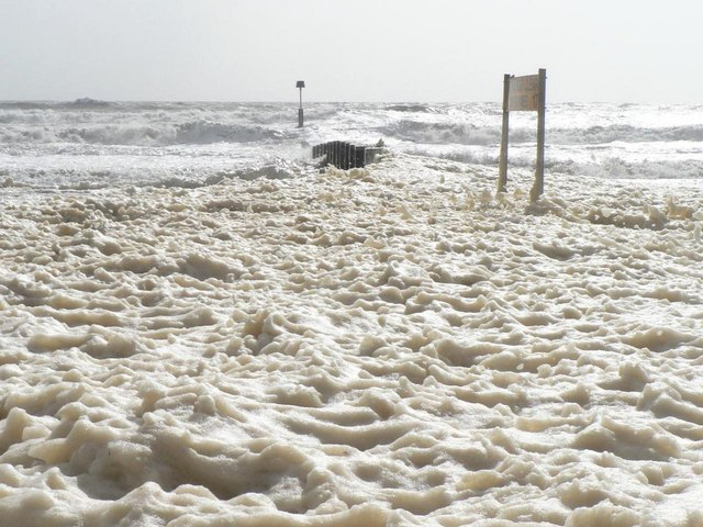 Bournemouth: foam over groyne №17 A load of foam, carried by the waves on this day of very strong winds, completely covers the landward section of the groyne.